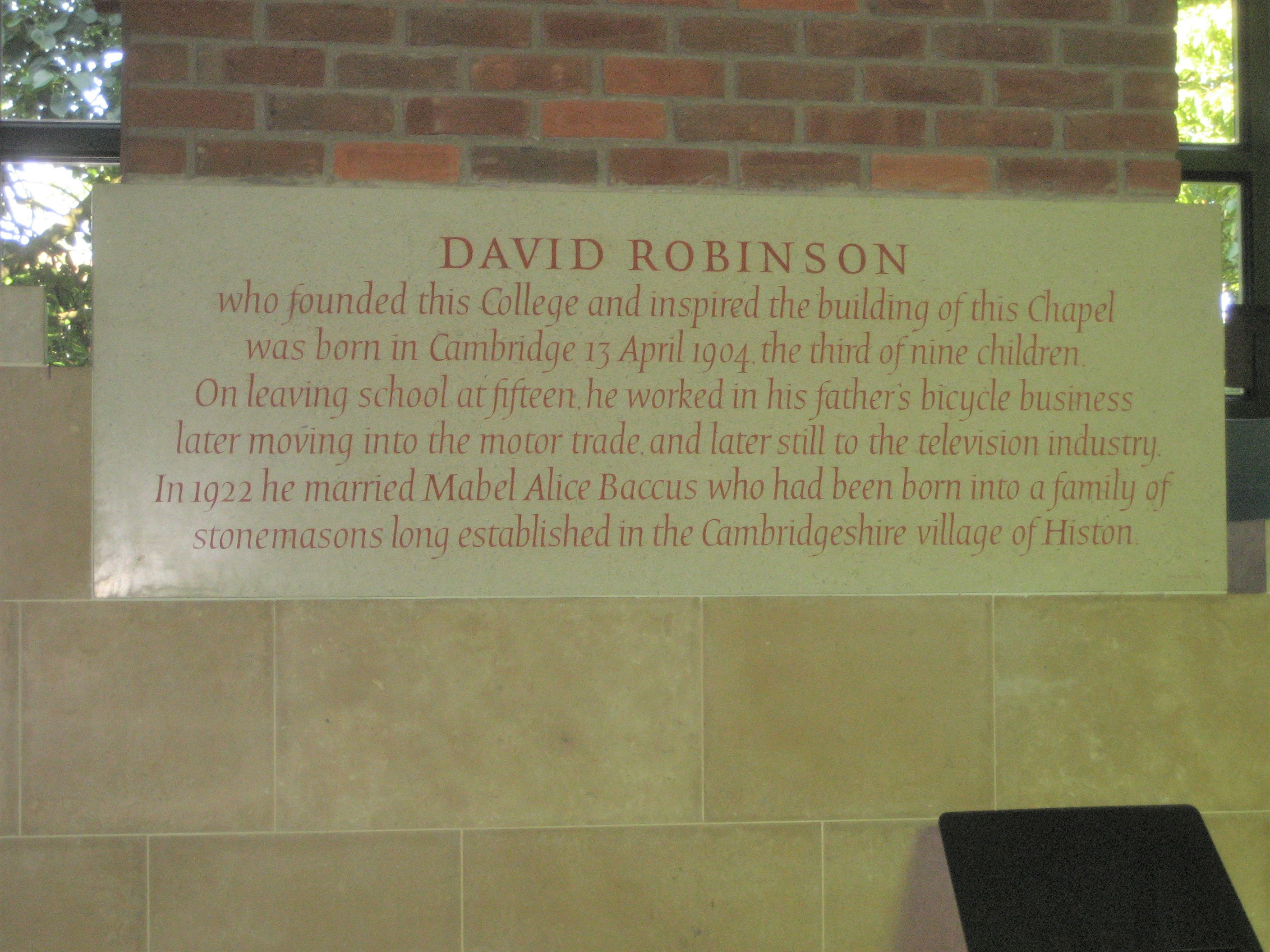 Memorial stone for David Robinson in Robinson College Chapel, Cambridge, England (UK)